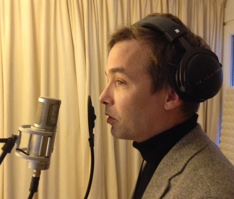 Marc Secara during recording at Greve Studio in Berlin, Germany